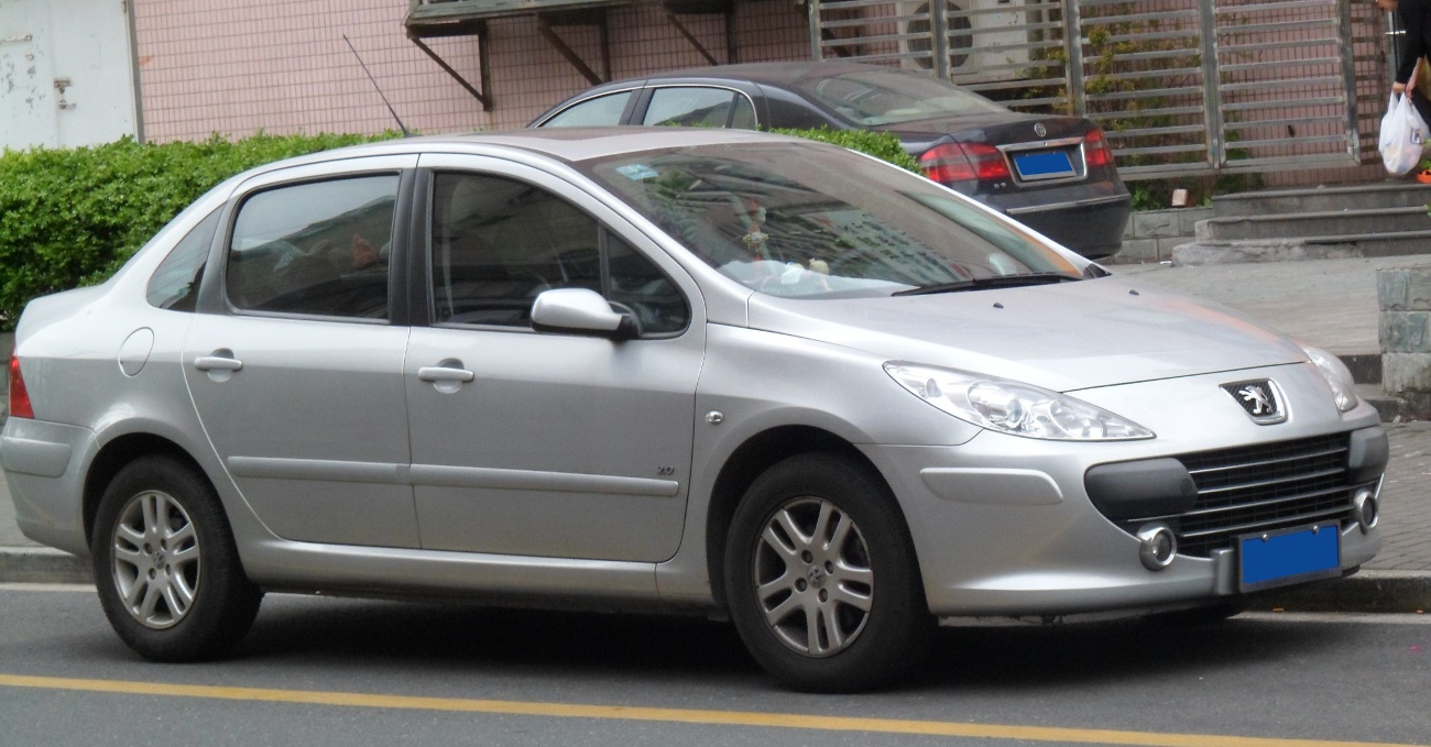 Peugeot 307 sedan photographed in Shanghai, China.